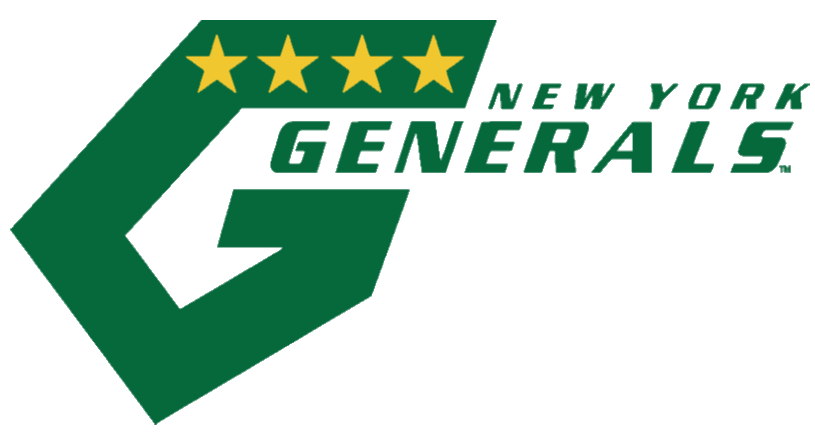 Logo for US soccer franchise New York Generals.